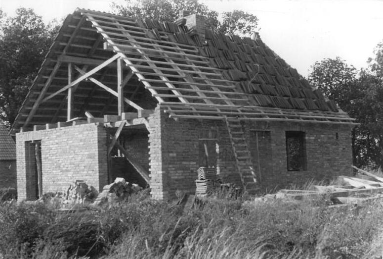 Original description in the federal archive: Rubow, Construction of a settler's farmhouse In the district of Leezen in Mecklenburg, 72 settlers' farmhouses will be completed by the election. In the district of Leezen in Schwerin County 72 farmhouses for settlers, being built by the stimulus of the leadership of the SED in the county, will be given over to settlers at the elections on October 15. Able-bodied workers from the firms of the county gave valuable aid to the construction by special assignment. The accomplishments achieved to now promise that by large-scale collective action the fixed goal will be reached on schedule. UBz(?): This house in Rubow is part of the goal.